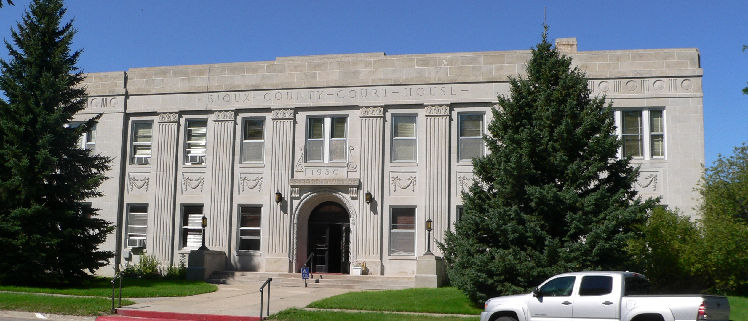 Sioux County Courthouse in Harrison, Nebraska; seen from the east. The Classical Revival building was constructed in 1930. It is listed in the National Register of Historic Places.